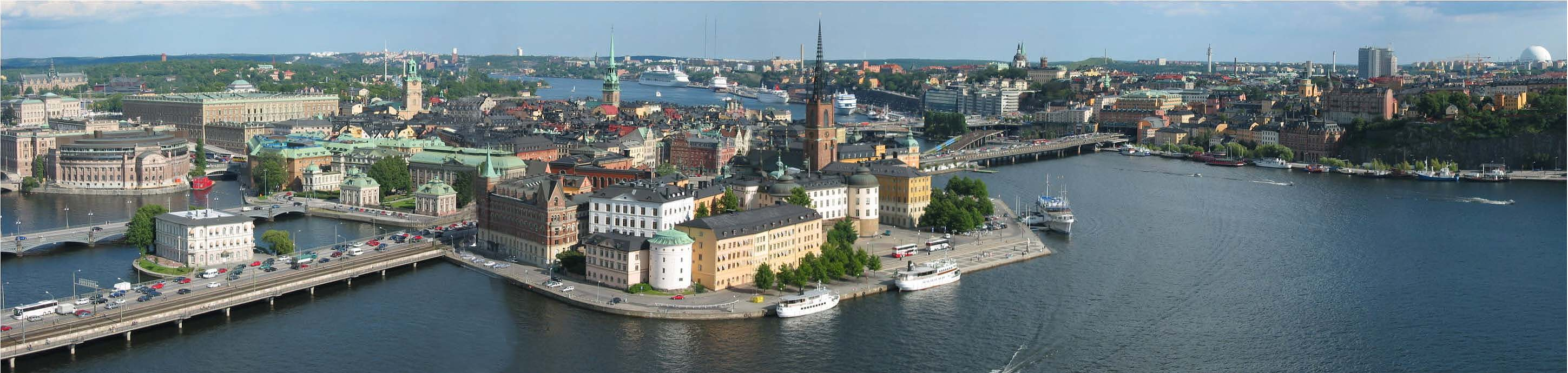 View of the central parts of Stockholm.